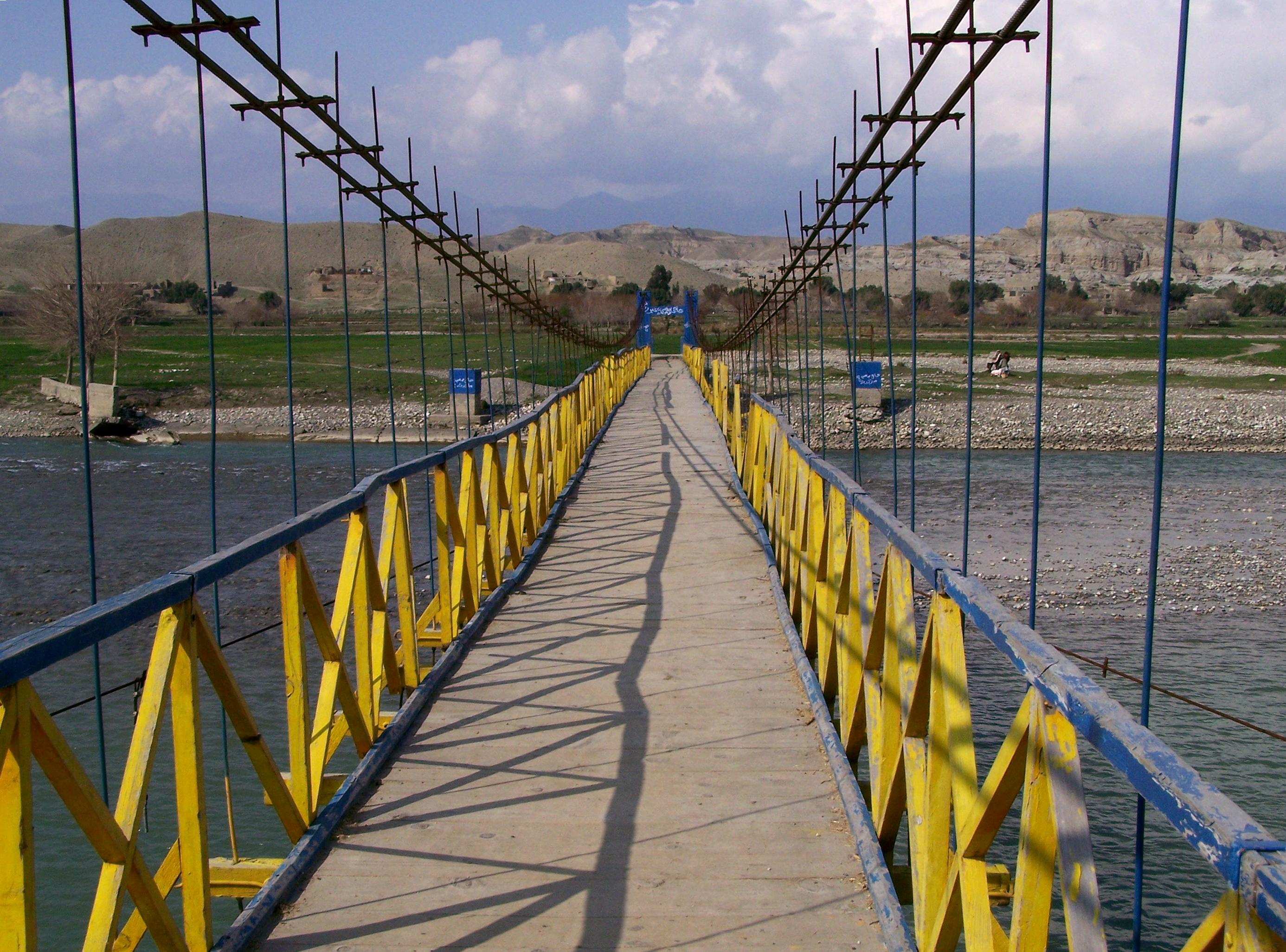 Bridge over the Kabul River east of Kabul, Afghanistan